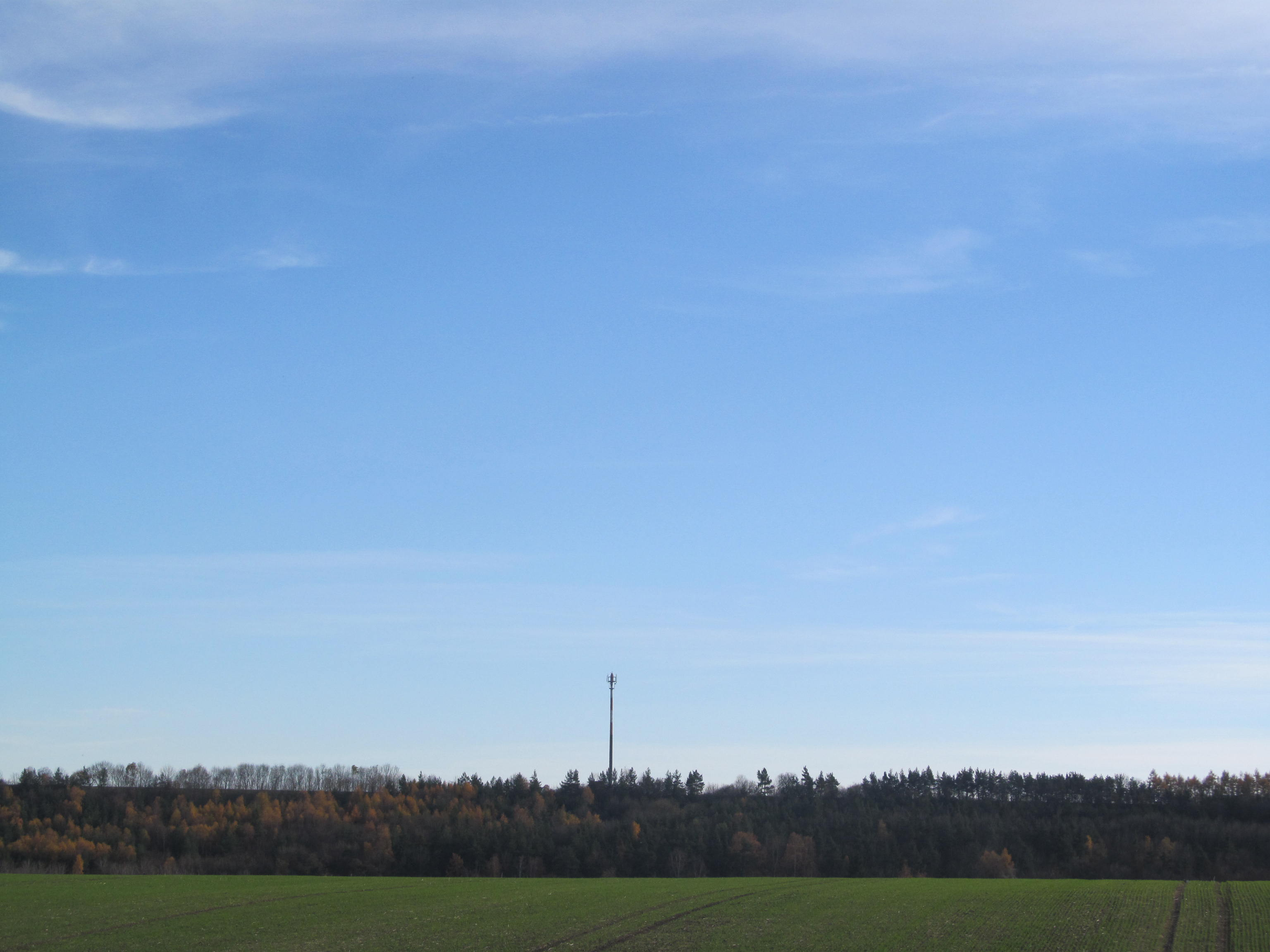 Hill Ovčí vrch by Lipno